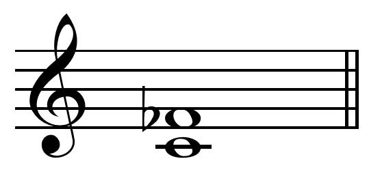 Diminished fourth on C = F♭. Just: 32:25 = 427.37 cents. Equal-tempered: 24/12:1 = 400 cents.